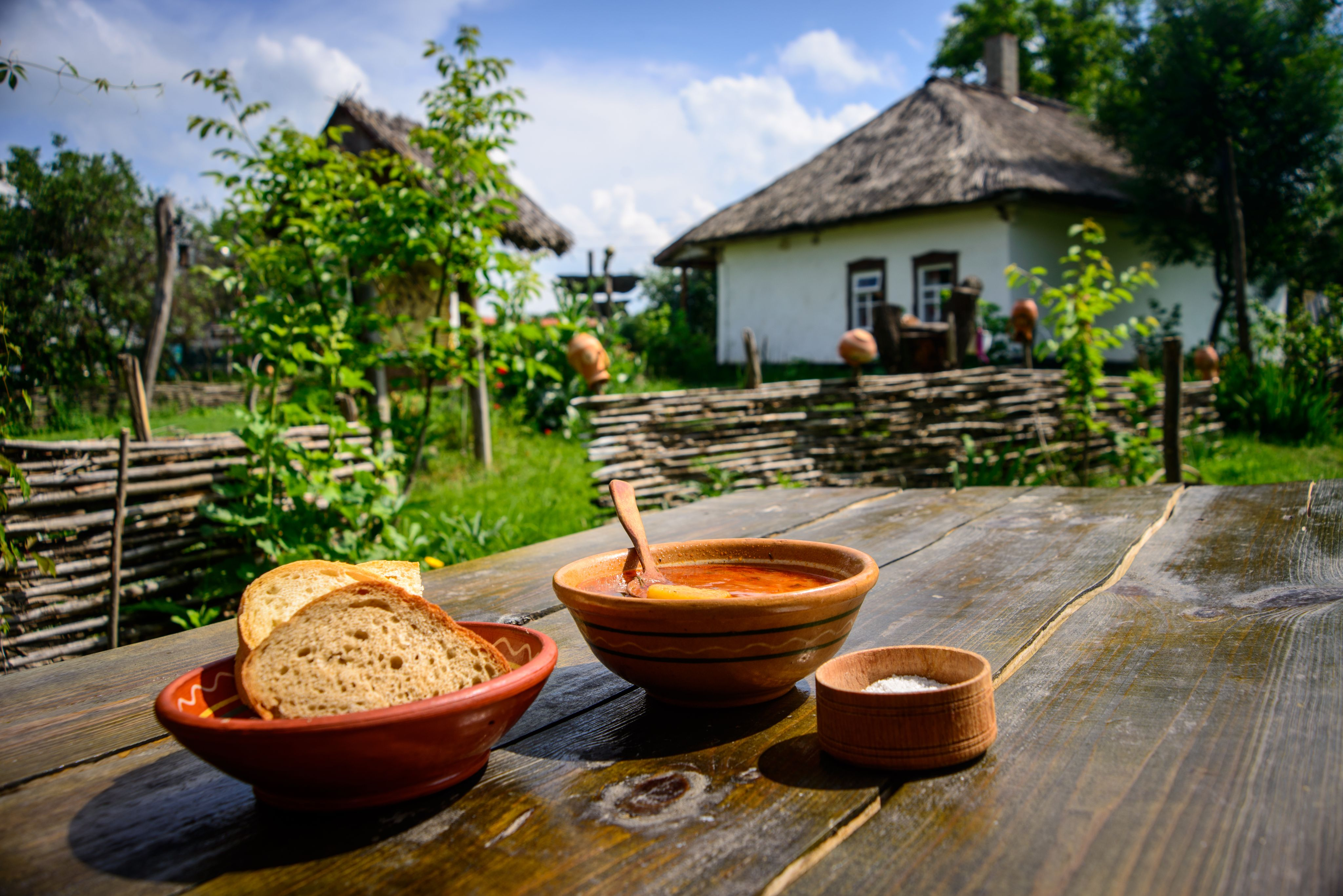 Borsch. Wikiexpedition to Fest "Borschyk in clay pot". Poltava region